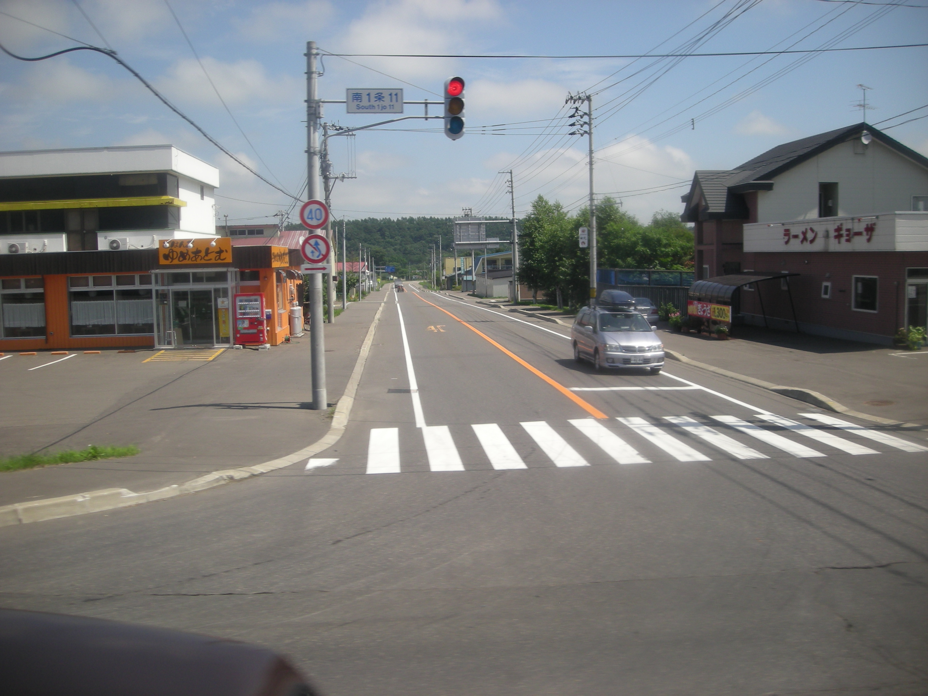 Route274-Shimizu,Hokkaido,Japan